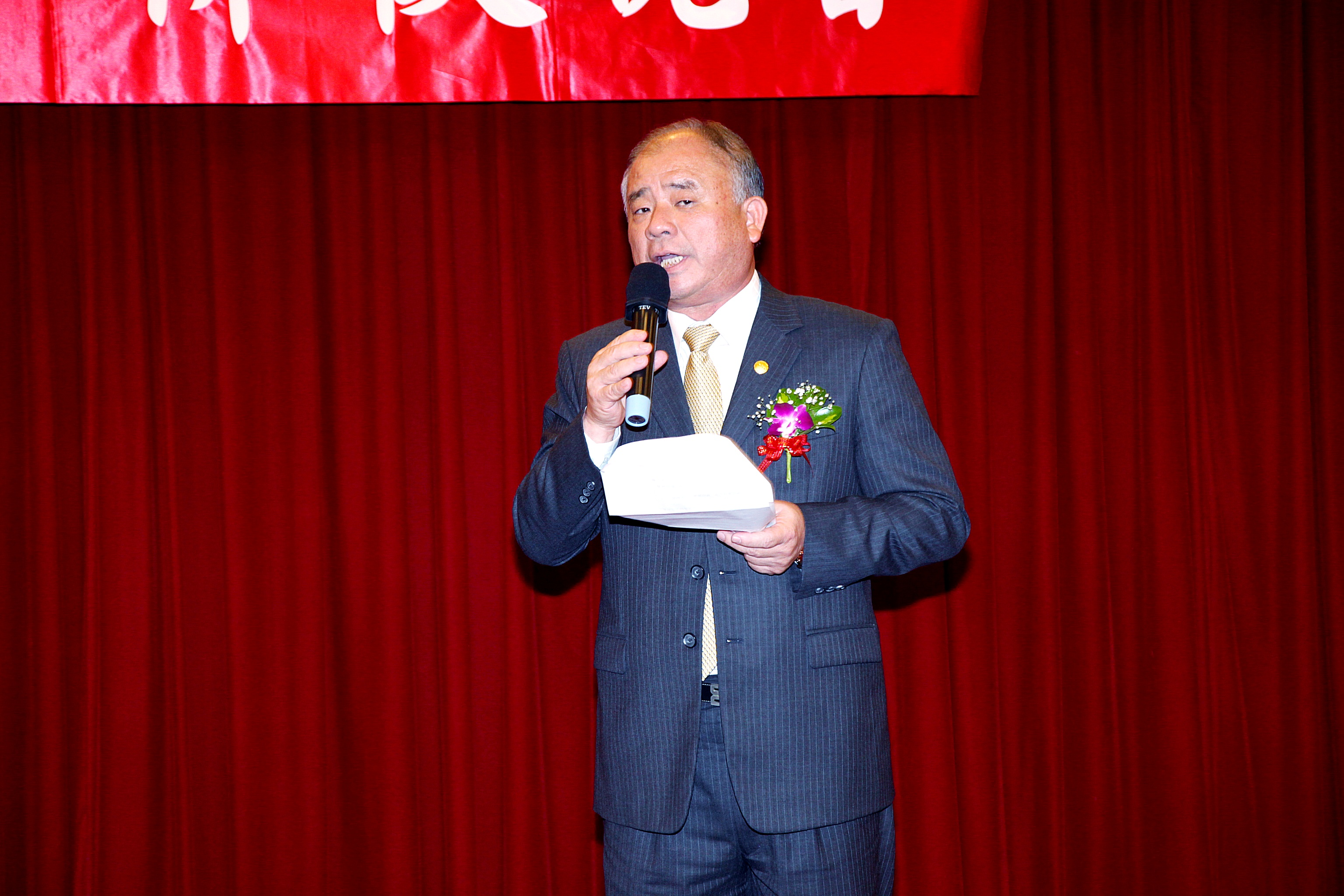 Huang Ming-Chih, 10th President of Taiwan Lighting Fixture Export Association.